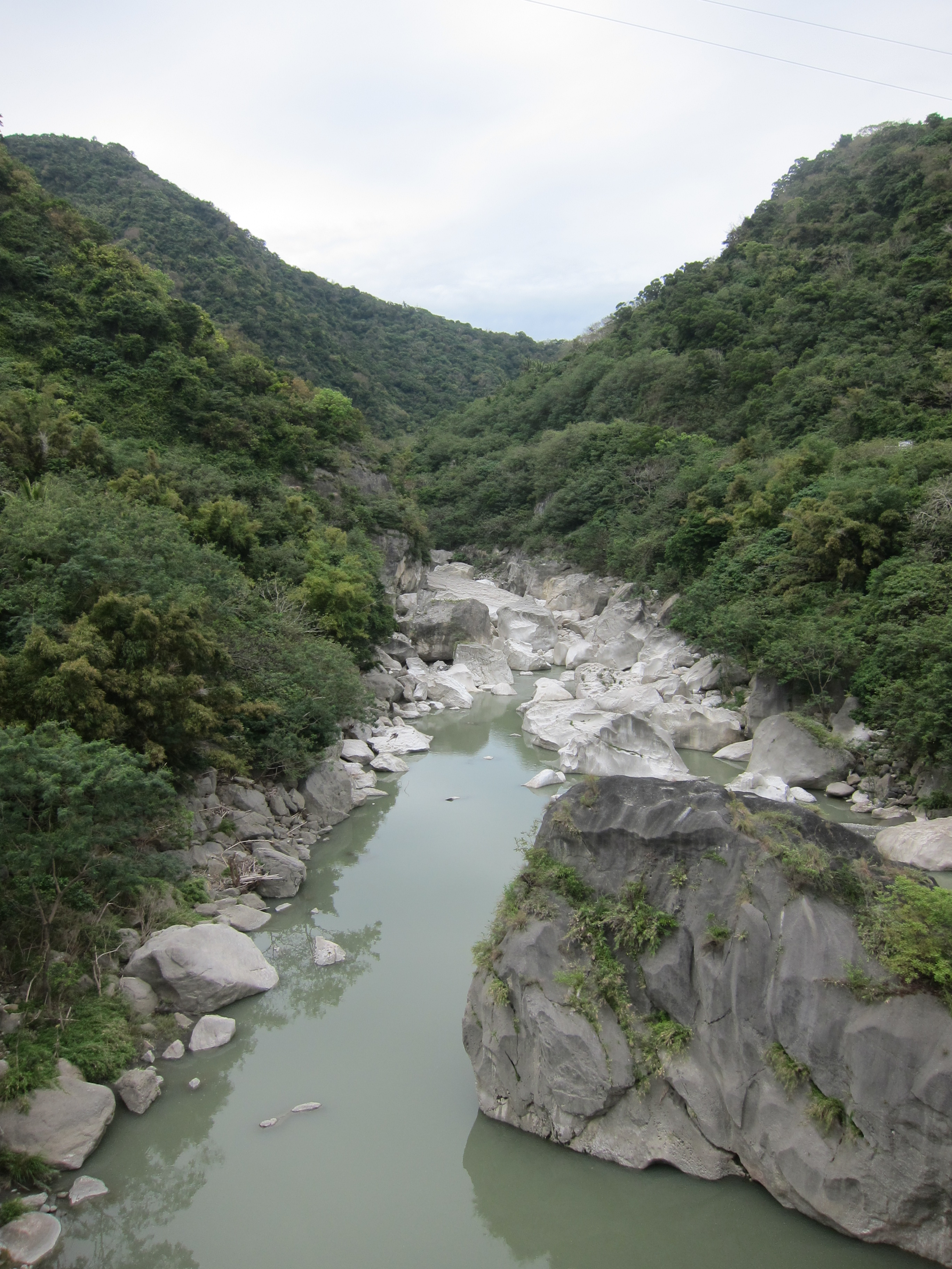 Some washed-out rocks in Mawuku Creek, Taiwan